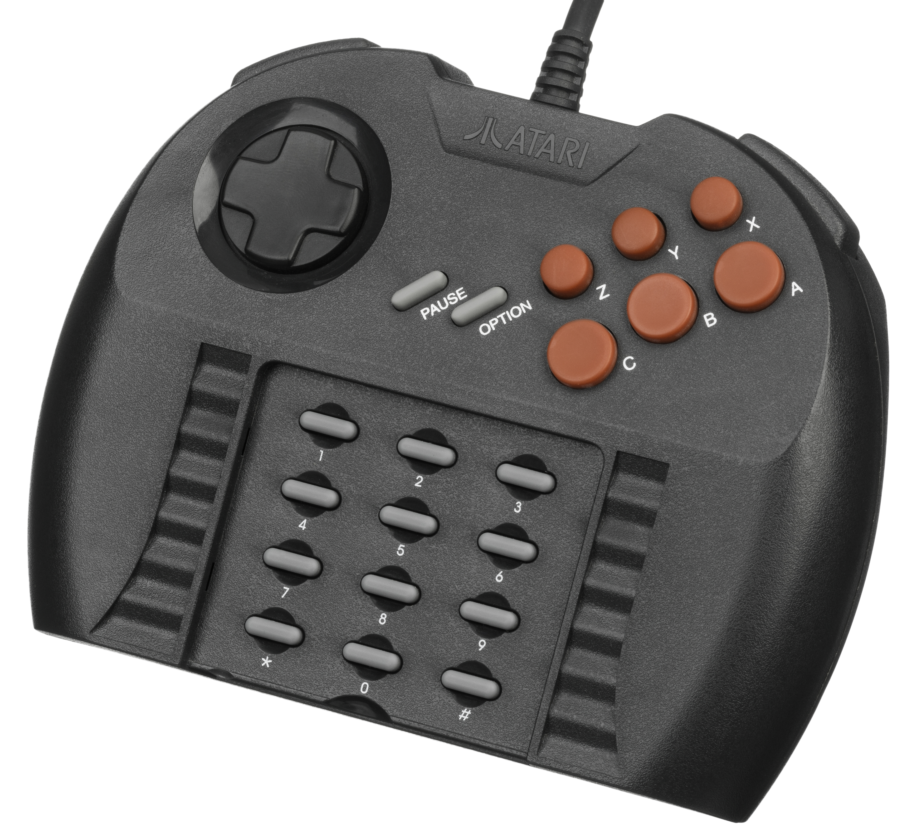 The Atari Jaguar's Pro Controller. The Pro Controller was released late in the Jaguar's life, making it rare today. The controller contains three additional face buttons and two L/R triggers on the top. Very few games make use of these extra buttons explicitly, but old games can make use of them since the new buttons are just remapped from the keypad buttons below.